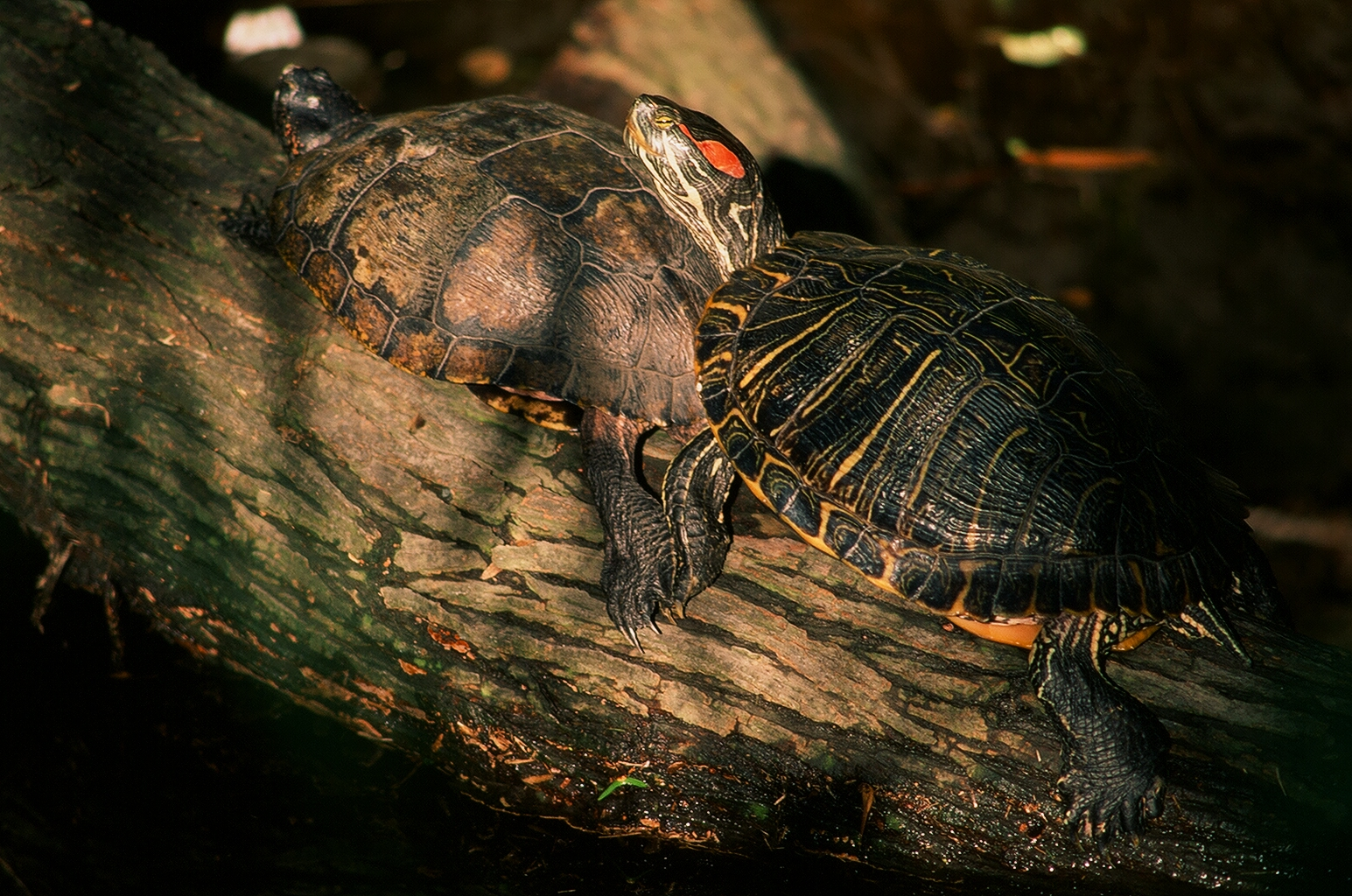 Two red-eared slider turtles late afternoon at Captain Falcon Park in Corpus Christi, Texas.